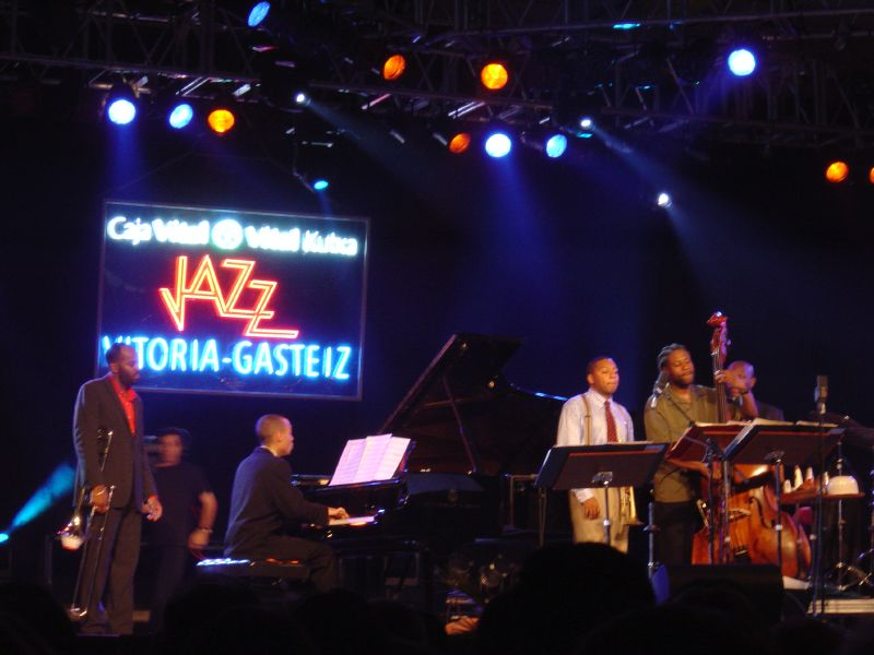 Wynton Marsalis Septet (Wynton Marsalis, Ron Westray, Wes “Warmdaddy” Anderson, Victor Goines, Richard Johnson, Reginald Veal, Herlin Riley)